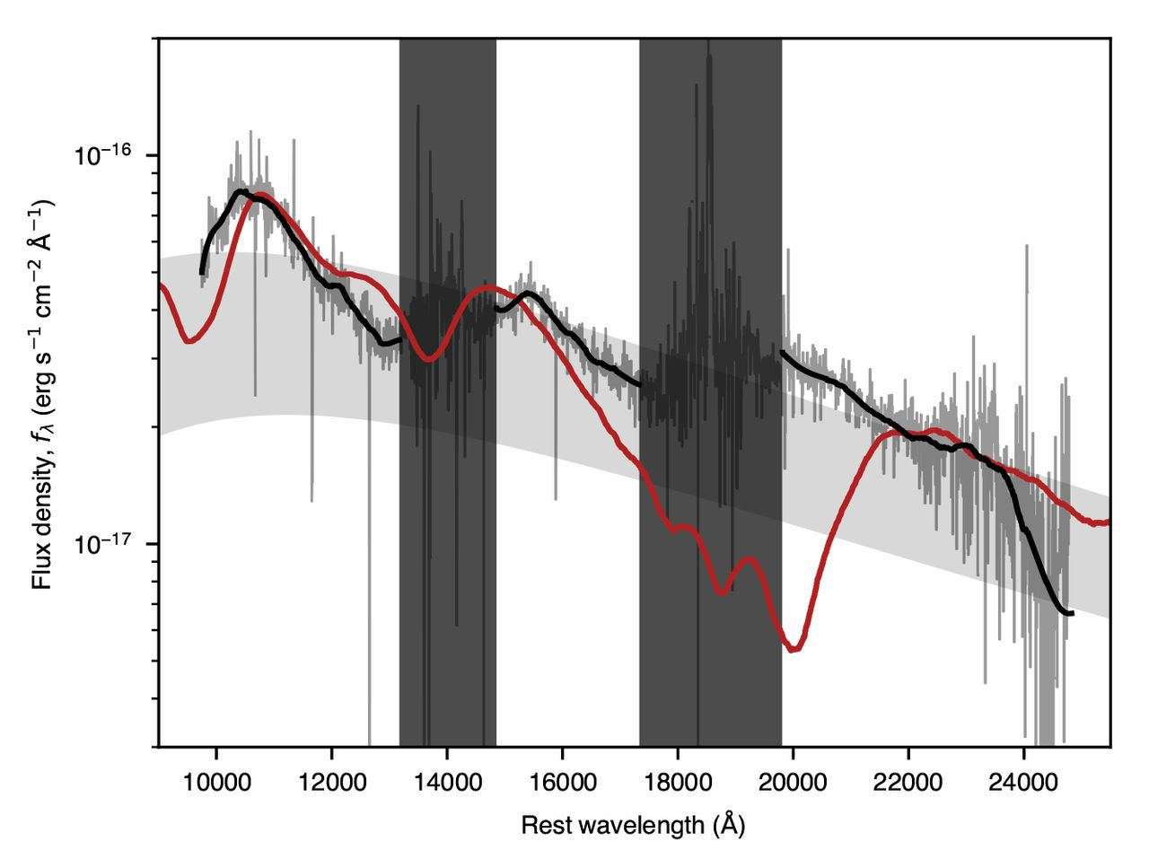 For display purposes, the data have been smoothed using a Savitzky-Golay filter (solid black line), and the unfiltered data are shown in grey. A predicted model macronova spectrum (23) assuming an ejecta mass of Mej = 0.05M☉ and a velocity of v = 0.1c at a phase of 4.5 days post merger is shown in red. The spectra have been corrected for Milky Way extinction assuming reddening E(B – V) = 0.1 (10). Regions of low signal-to-noise ratio from strong telluric absorption by the Earth’s atmosphere between the near-infrared J, H, and K spectral windows are indicated by the vertical dark grey bars. The light grey shaded band is the blackbody which best fits the photometric measurements at 4.5 days (10).